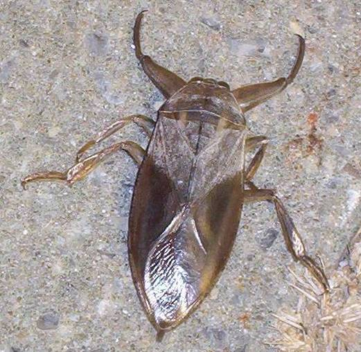 Giant water bug